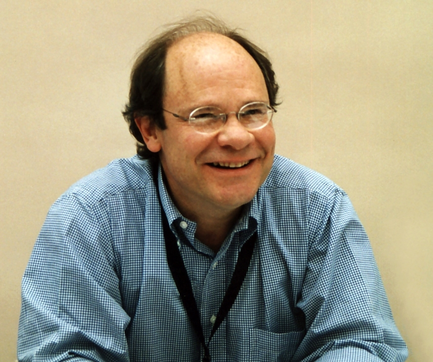 American actor Ethan Phillips at FedCon XI in Bonn, Germany, 2003.